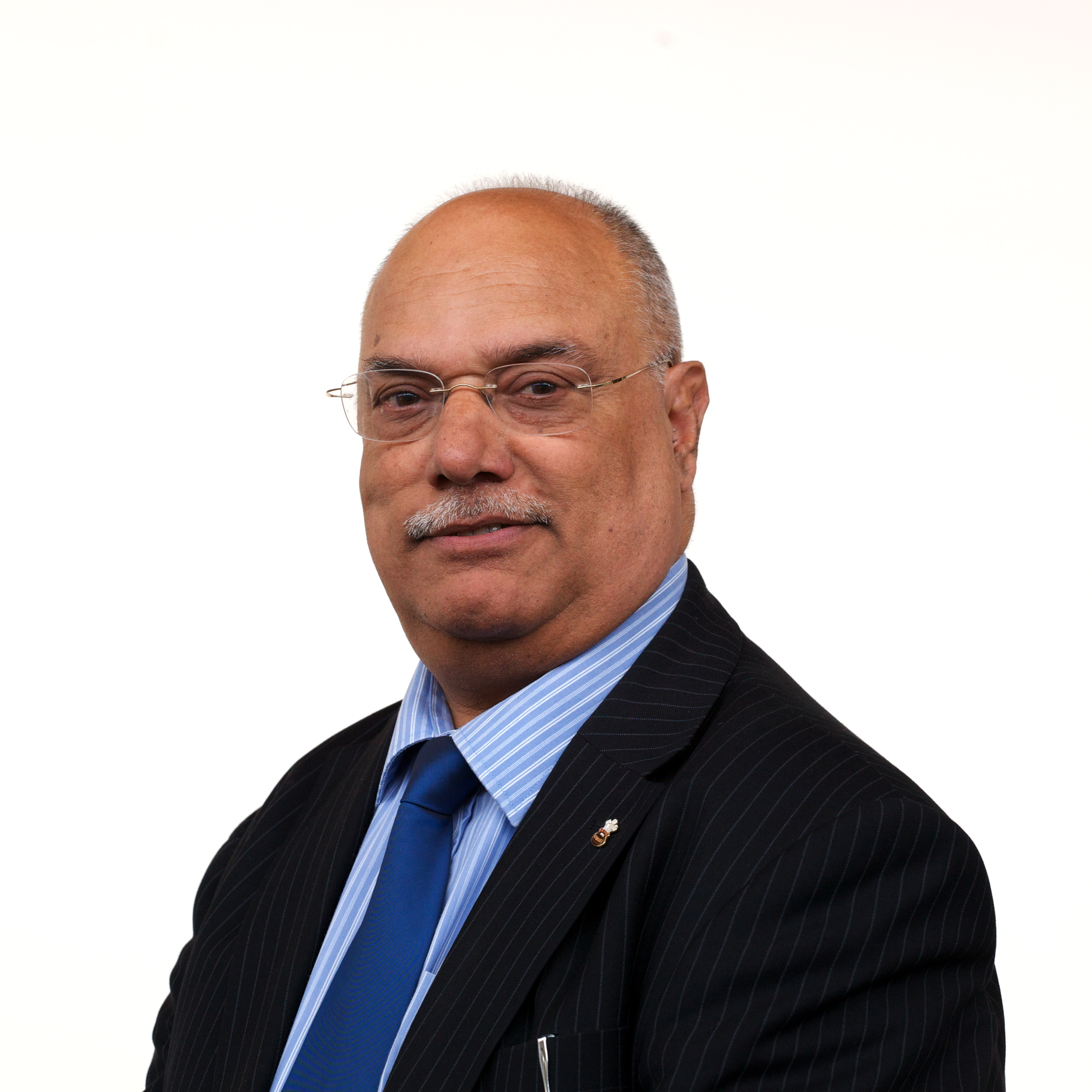 Mohammad Asghar AM, member of the National Assembly for Wales.